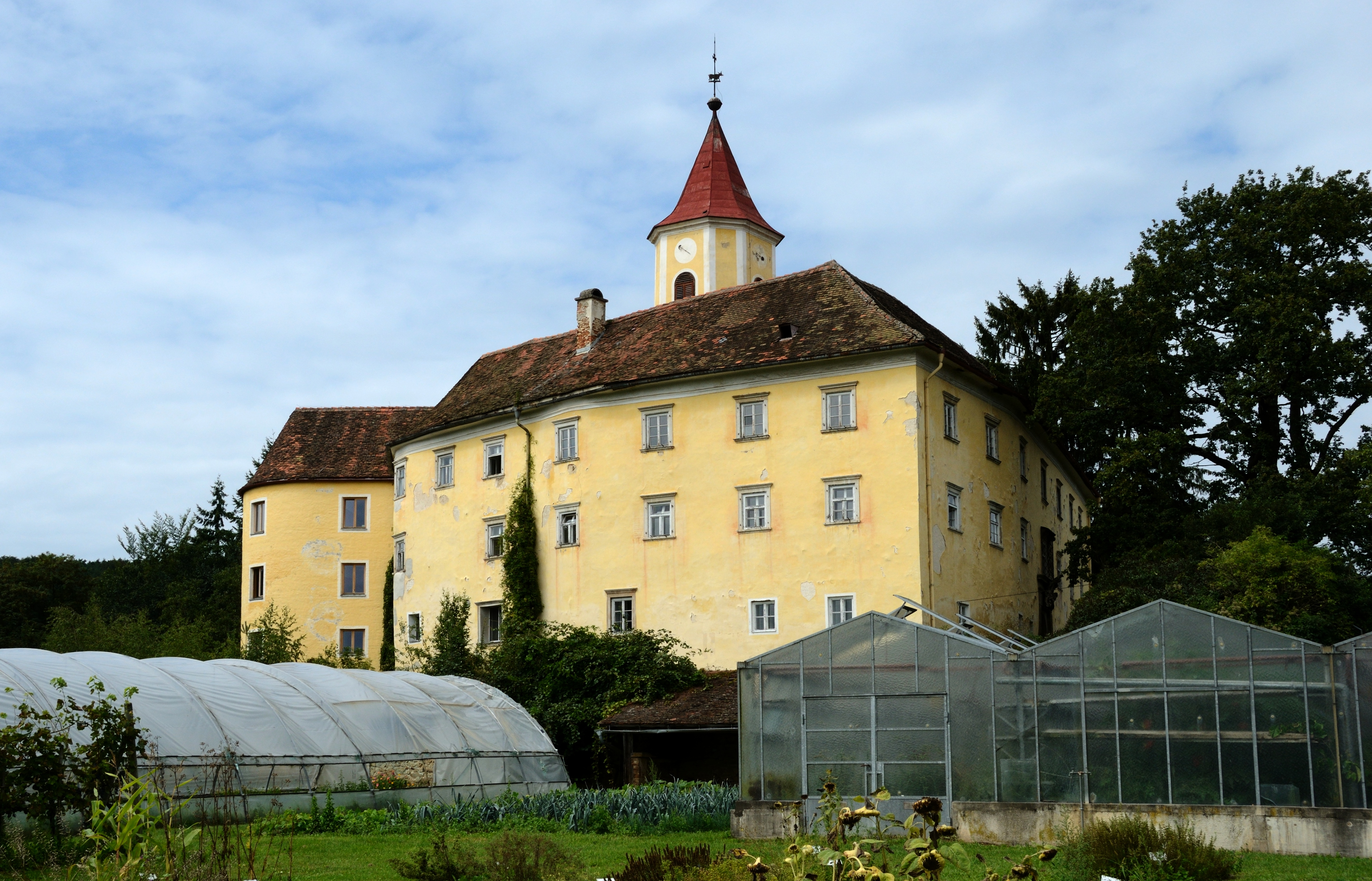 Schloss Kirchberg am Walde, municipality of Grafendorf bei Hartberg, Styria, is used as an agricultural school. In the foreground the glass houses and part of the gardens of the plant nursery.